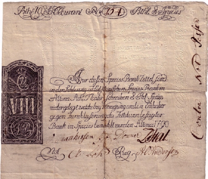 Banknote issued by Schleswig-Holsteinische Speciesbank in 1790. The banknote certifies that the amount of 8 Speciestaler were deposited at Speciesbanken in Altona/Elbe (Germany). Upon presentation, the bearer of this note will be paid this amount in exchange for the banknote.